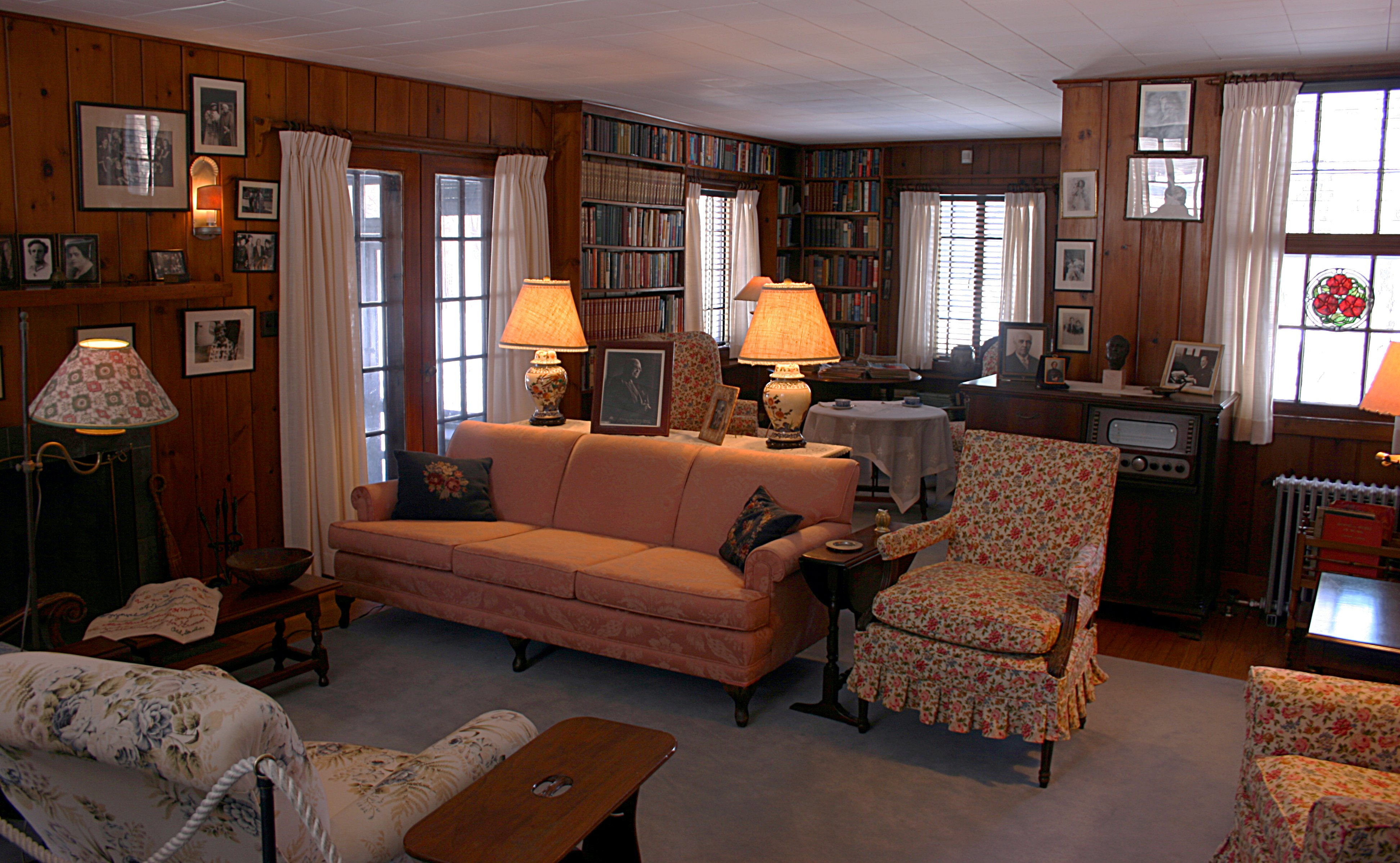 Photograph of the living room in the main house of the Eleanor Roosevelt National Historic Site, Hyde Park, New York, USA